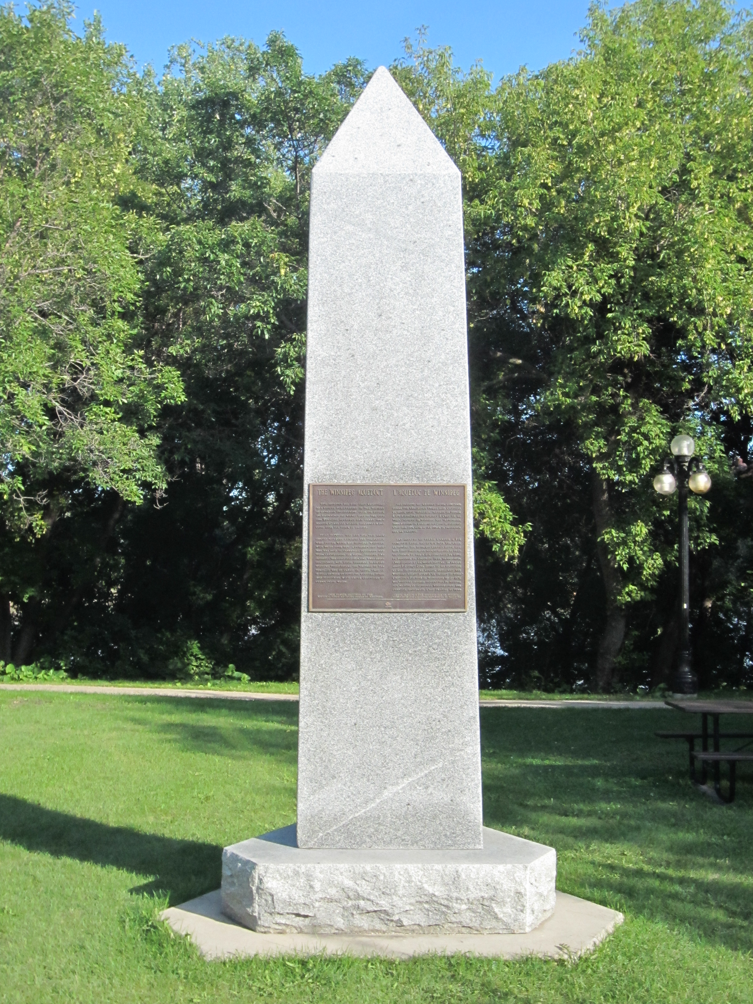 Monument to Winnipeg Aqueduct, Waterfront Drive 49D 53M 54.37S N, 97D 07 M 57.72W